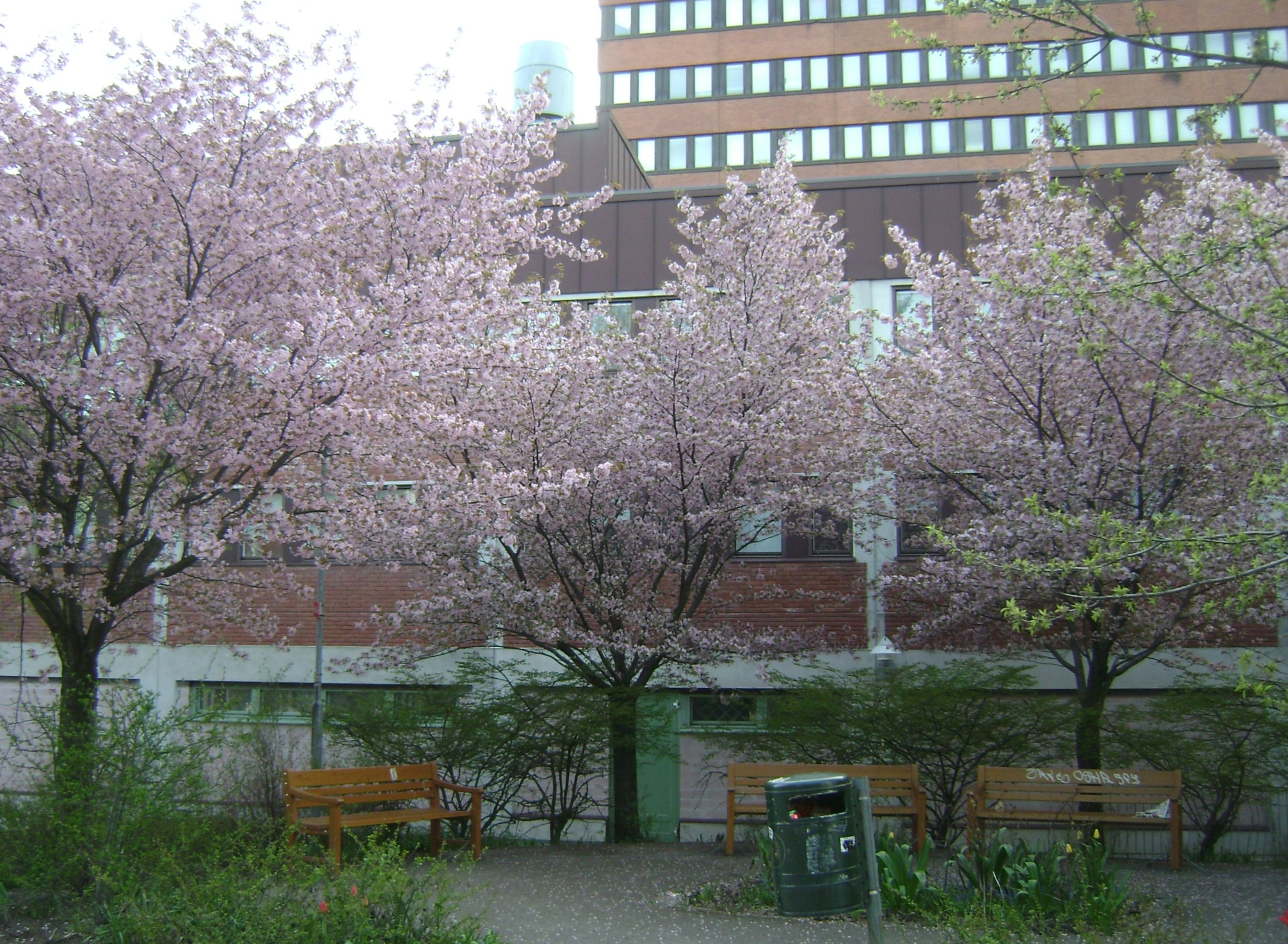 Sweden. Stockholm County. Haninge Municipality. Handen